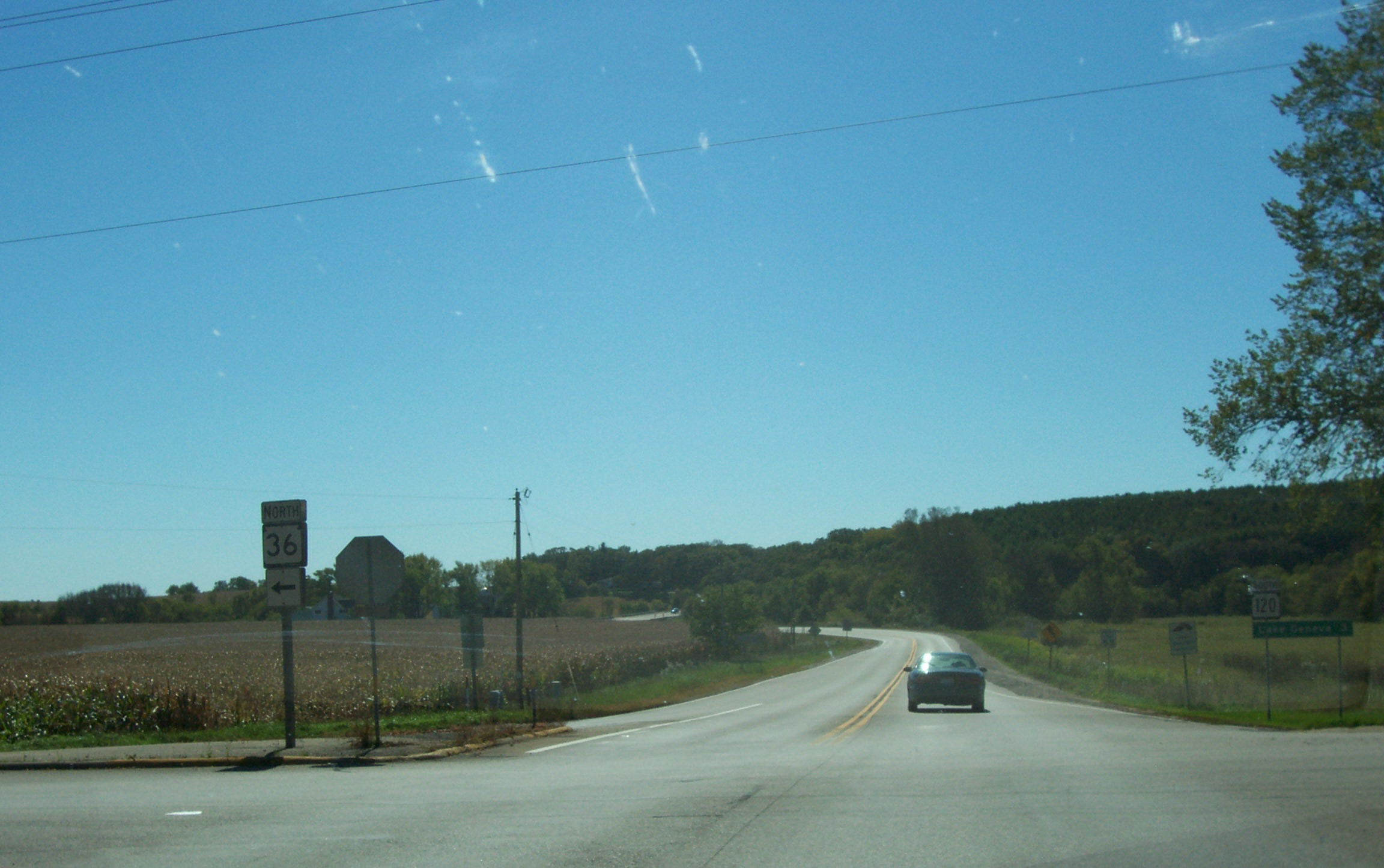 Looking south while on Highway 120 (Wisconsin) at the west terminus of Highway 36 (Wisconsin) in Springfield, Walworth County, Wisconsin. This image was taken on October 1, 2006 and cropped by User:Royalbroil. Category:Images of Wisconsin highways